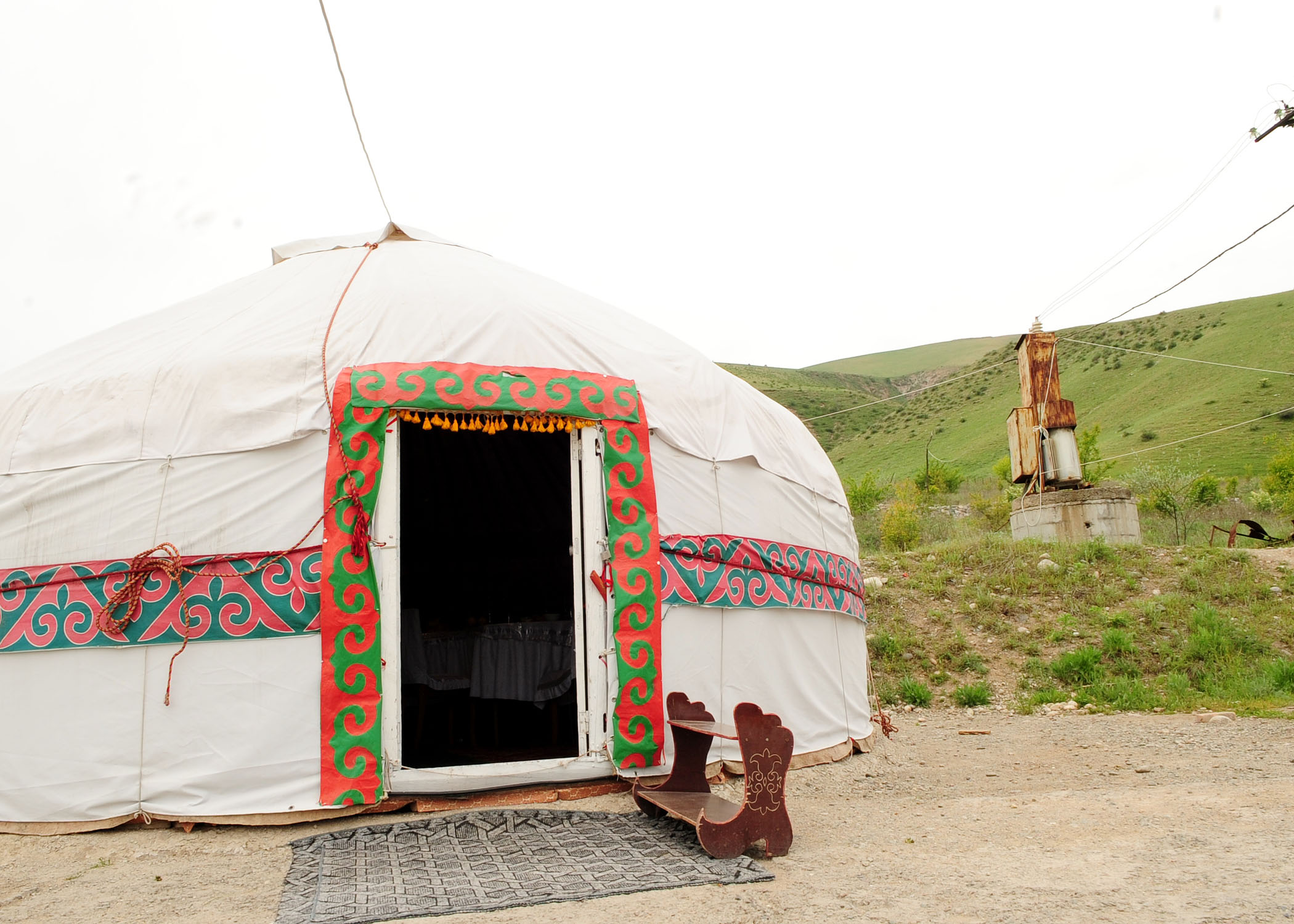 A yurt, the traditional Kyrgyz nomadic structure, sits at the base of a hill in Chongaryk near Bishkek, Kyrgyzstan, May 6, 2010. The yurt is a multi-functional, portable home consisting of a wooden structure with felt covers. A little stove, used for cooking and heating the room, is usually found in the center of the yurt.